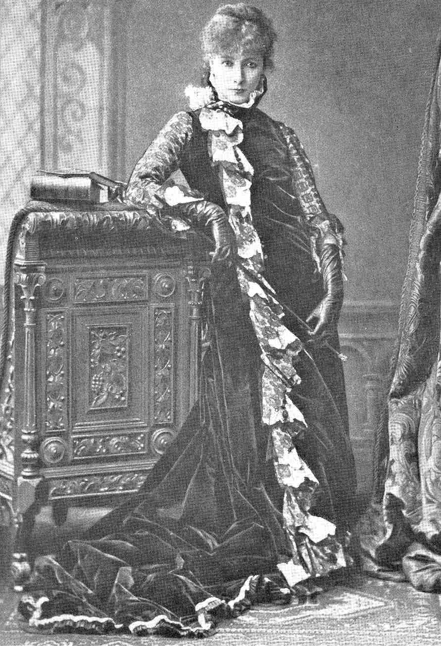 Sarah Bernhardt, 1844-1923 actress, by Nadar